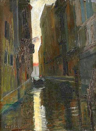 Eva Beve. Canal motive from Venice